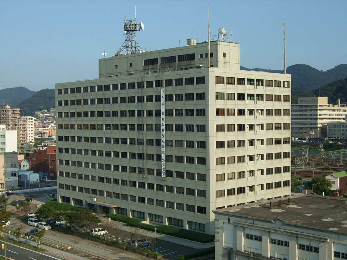 Moji Port Branch Office. Occupied by Moji Customs, Customs Training Institute Moji Branch, 7th Regional Coast Guard Headquarters, Kyushu District Transport Bureau Fukuoka Transport Branch Moji-Ko Office, Japan Transport Safety Board Moji Office, Fukuoka Quarantine Station Moji Branch, Animal Quarantine Service Moji Branch, Moji Plant Protection Station, Moji Local Marine Accident Tribunal, and so on. Nishikaigan 1, Moji Ward, Kitakyushu City, Fukuoka, Japan.